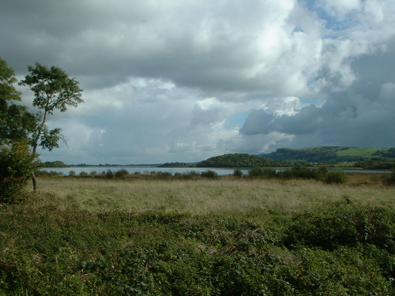 Western shore of Lower Lough MacNean, County Fermanagh, Northern Ireland. Picture taken by Andrew Humphreys, September 30, 2006.